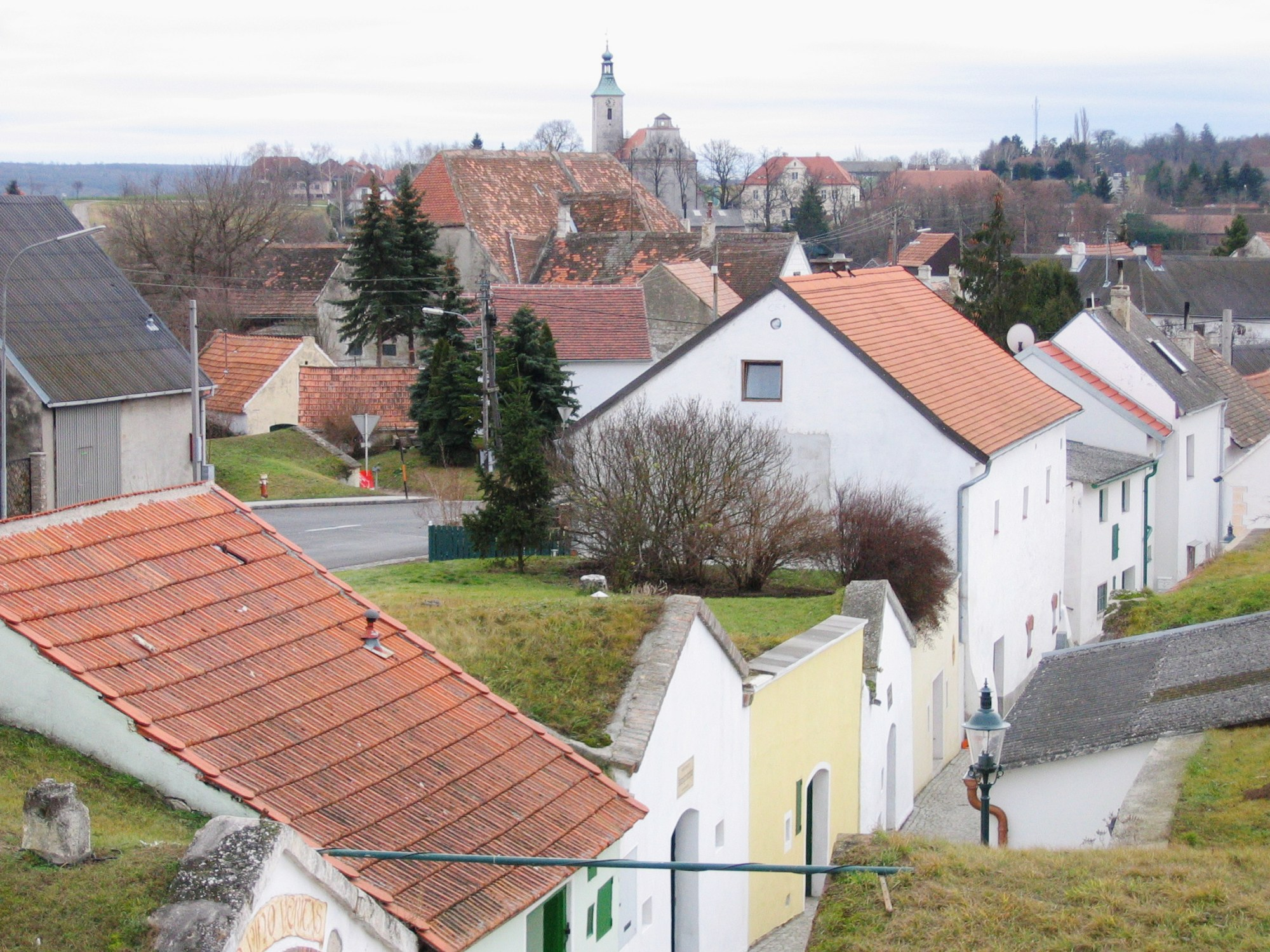 Wine cellars in Drasenhofen in Lower Austria